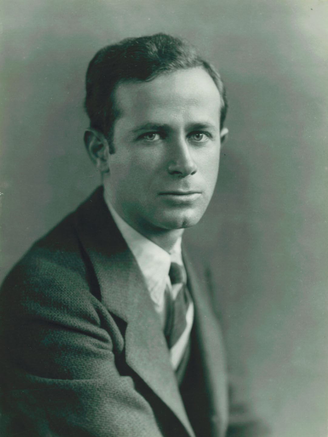 Melville Shyer self picture